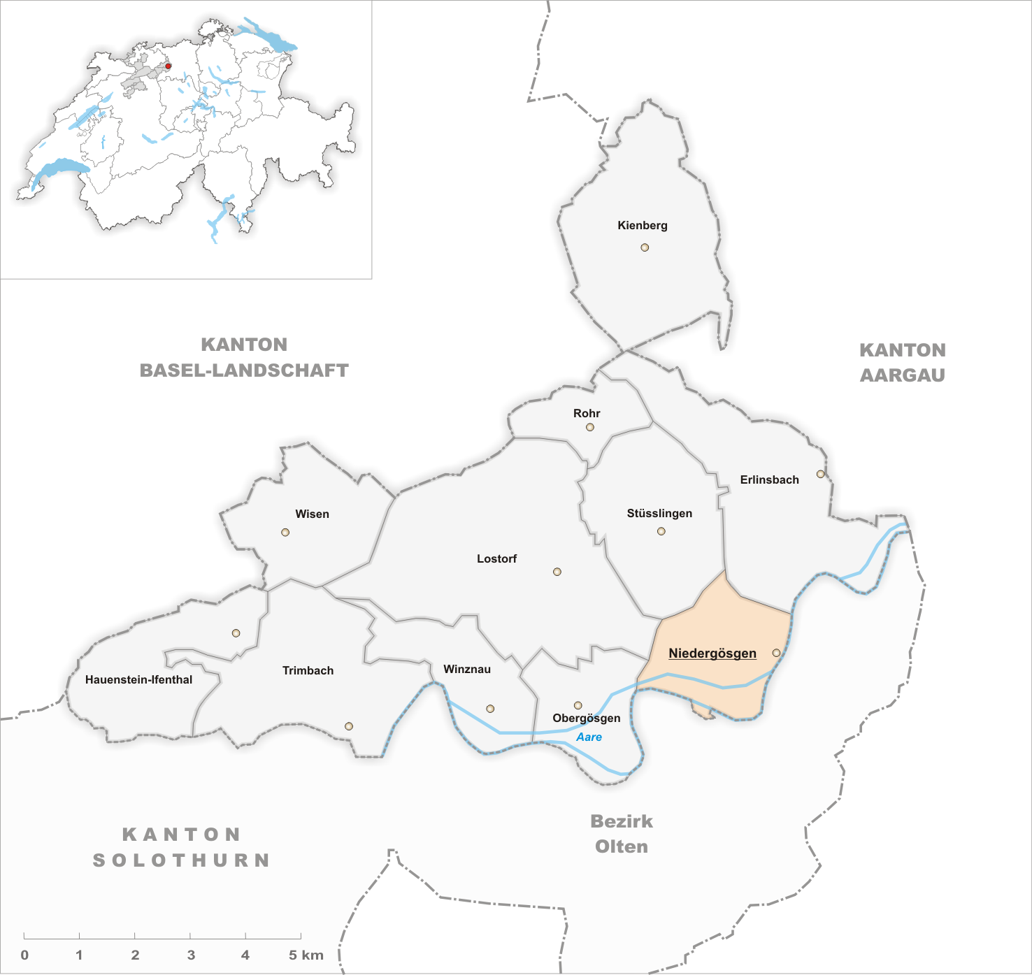 Municipality Niedergösgen